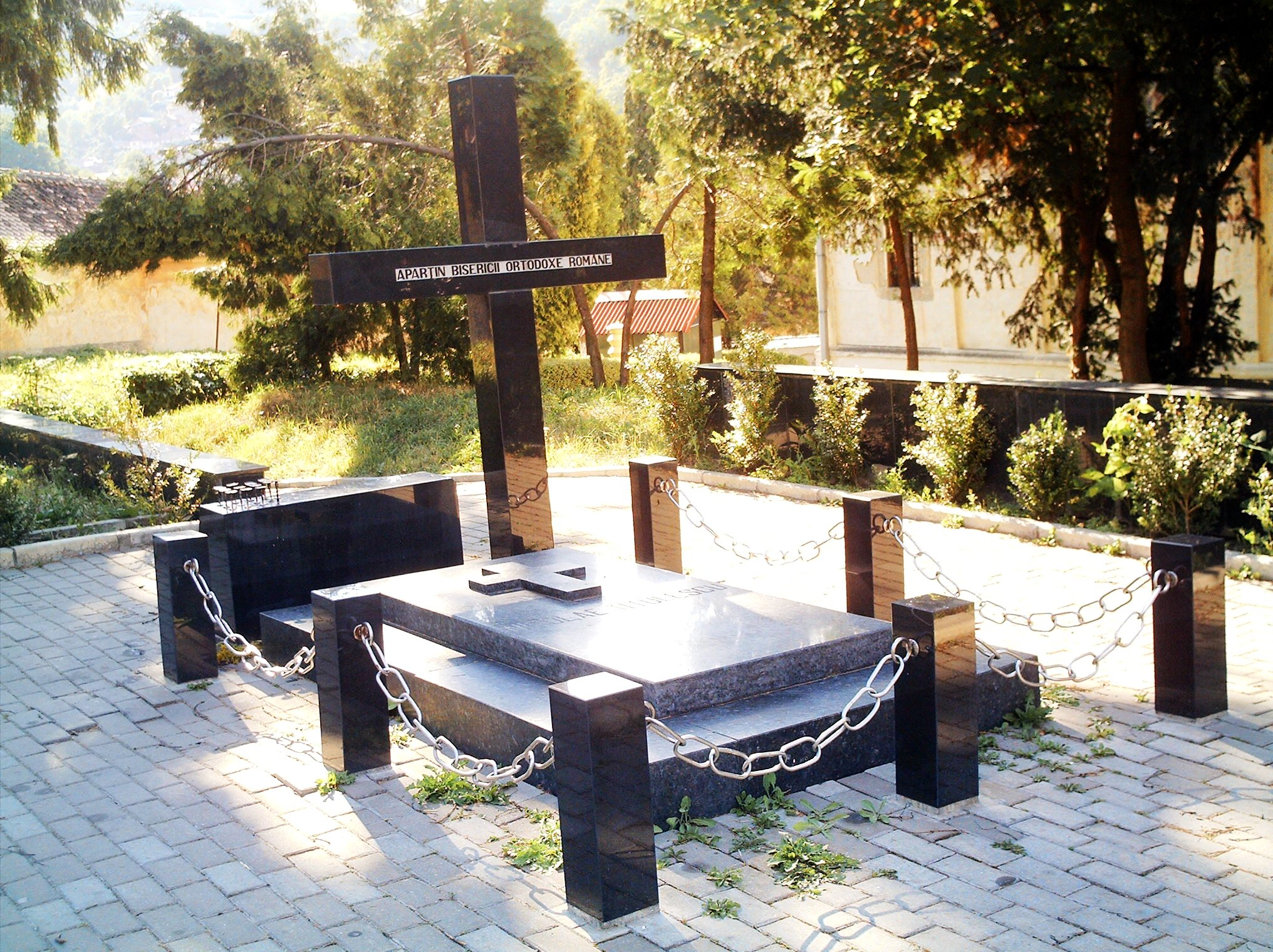 Nicolae Titulescu's tomb — in Saint Nicholas church cemetery, in the Şchei district of Braşov, Transylvania.